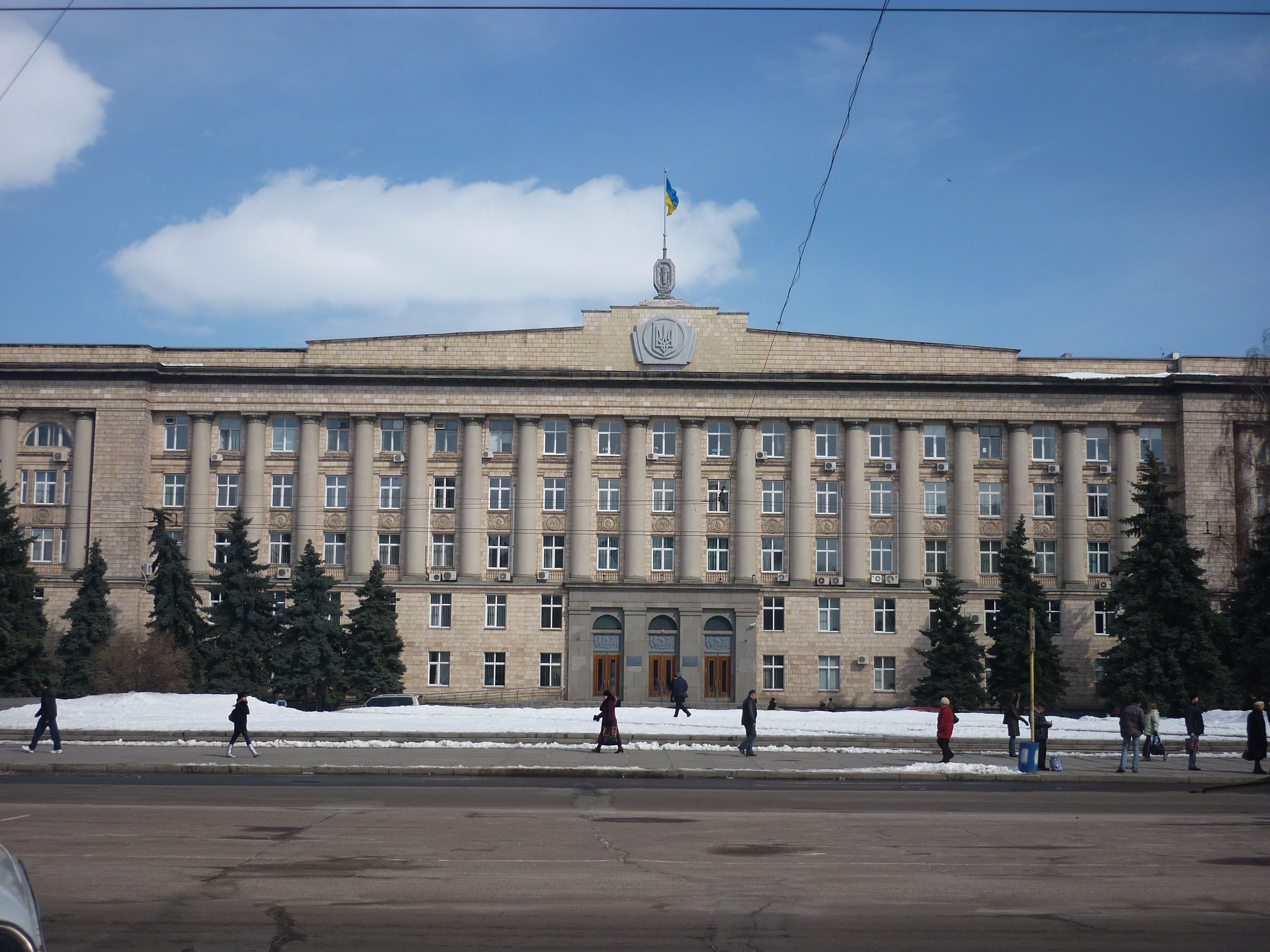 Cherkasy Province Administration